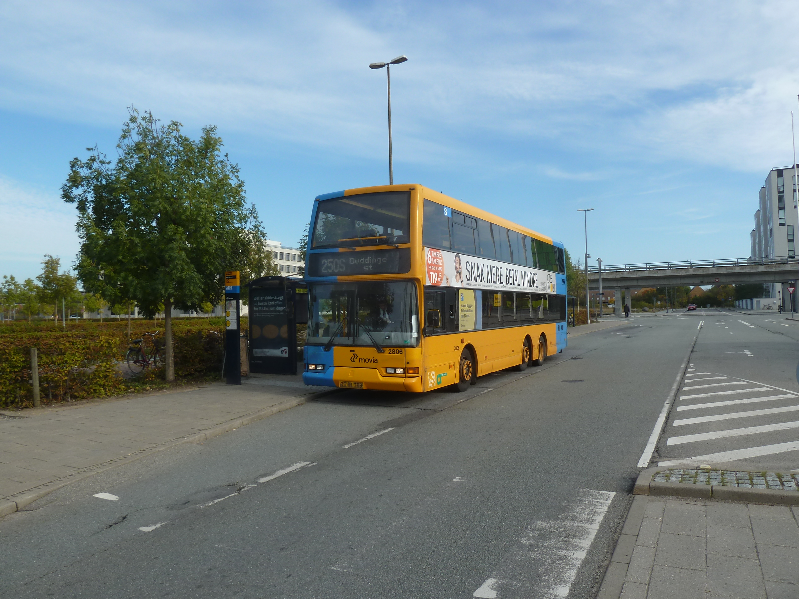 Movia bus line 250S at Bella Center Station in Copenhagen.